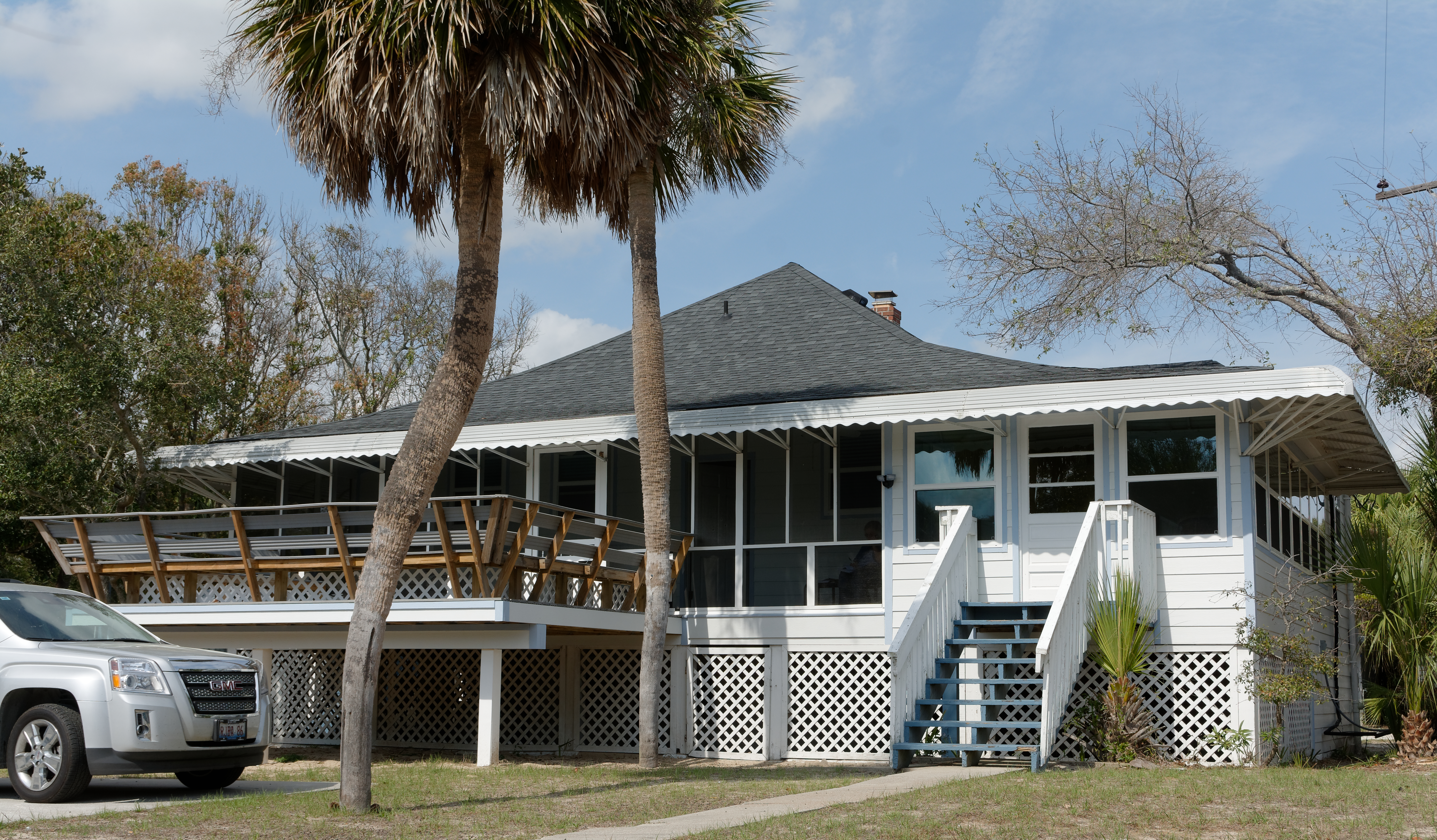 Strand Cottages Historic Districy, Tybee Island, Georgia, US Sims cottage